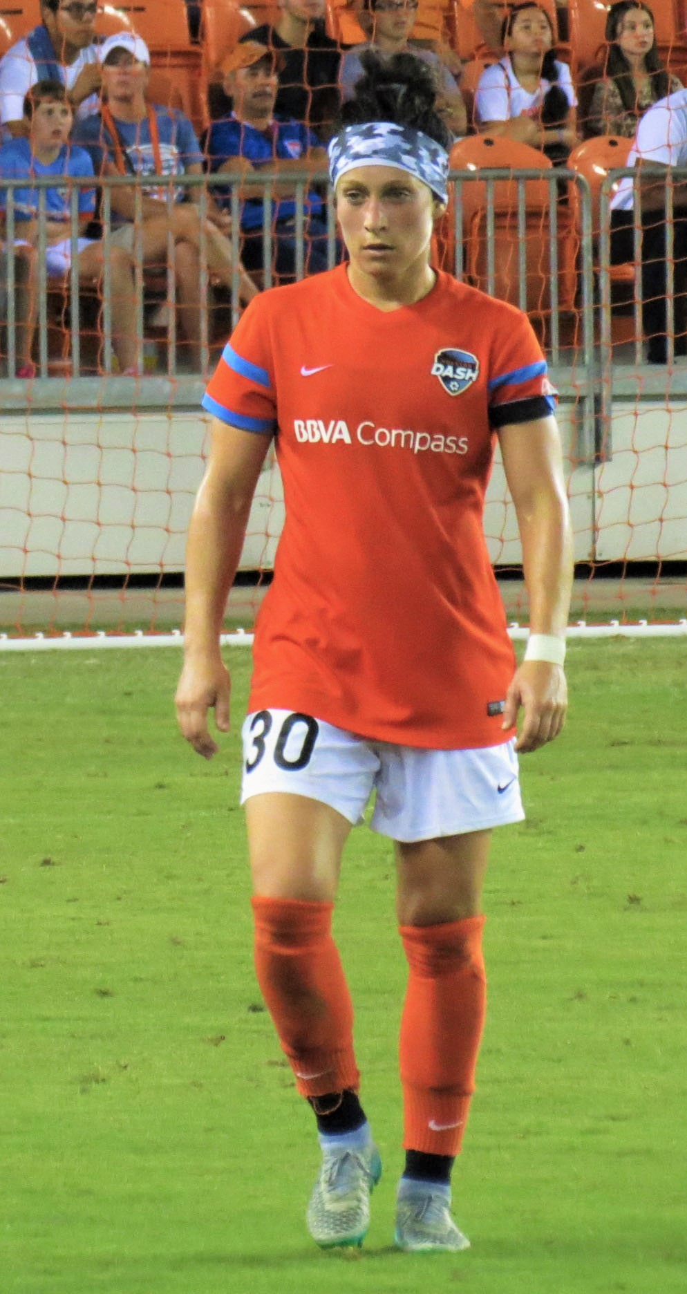 Ella Masar McLeod playing for the Houston Dash in 2015